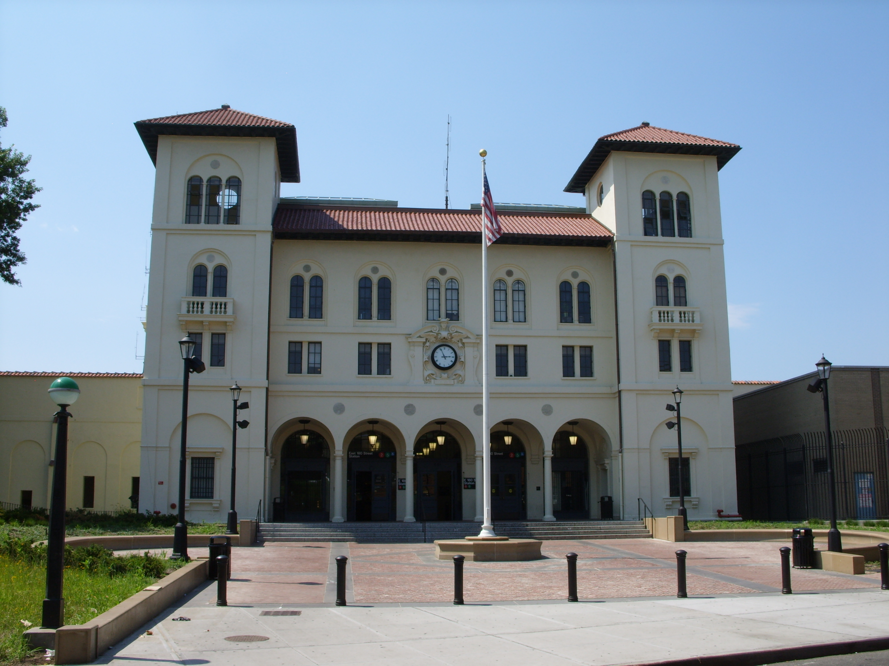 Photo of East 180th Street subway station, Bronx, New York. Originally called the New York, Westchester and Boston Railroad Administration Building. Built in 1912. It was most recently renovated within the past year-and-a-half with its clock returned in the Spring of 2012. Photo taken on Morris Park Ave facing East 180th station using a Samsung Digimax L85 camera.